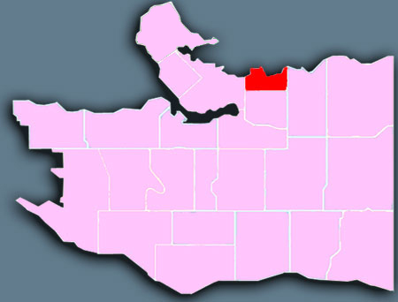 Downtown Eastside neighbourhood of Vancouver.